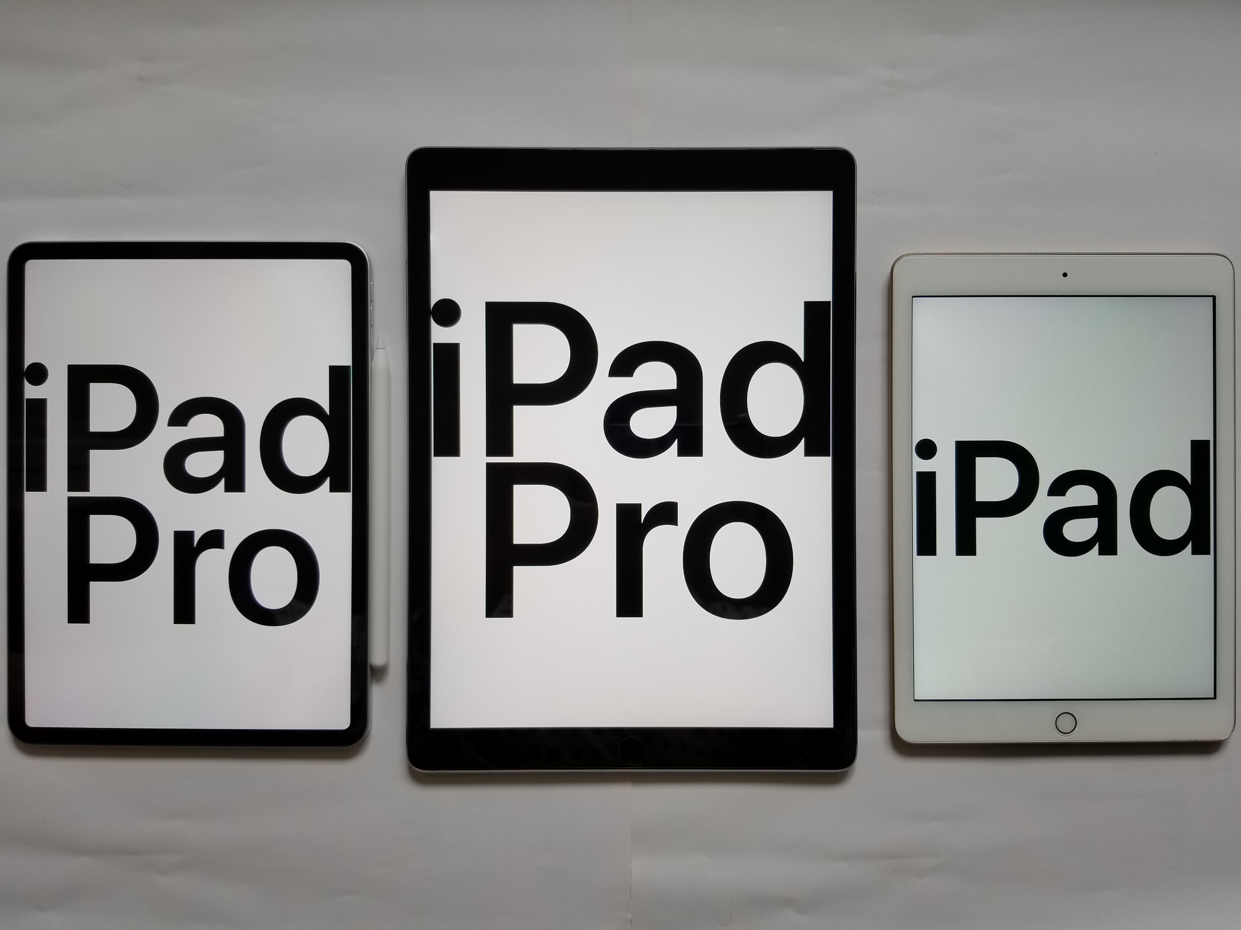 iPad Pro 11″ (silver) iPad Pro 12.9″ (space gray) iPad 9.7″ (gold)